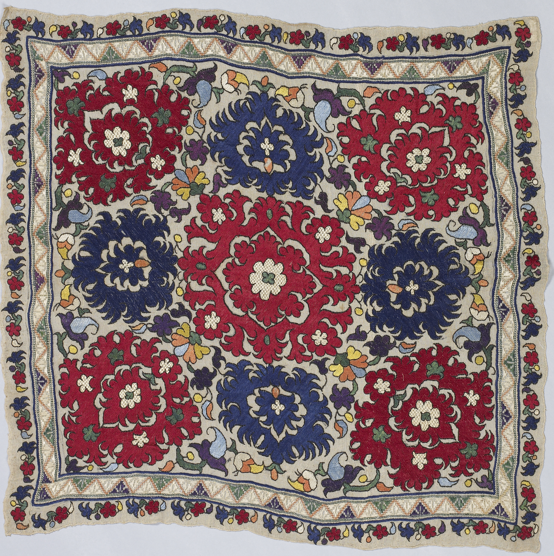 Turbans, the traditional headgear of Muslims in the Ottoman Empire, were removed like hats without being unbound. One would then place them on a shelf and cover them with embroidered cloths as protection from dust and disrespectful treatment. The wearing of turbans was abolished just a few decades after this cover was made: in 1827, Sultan Mahmud II (r. 1808-1839) ordered all male Ottoman subjects, both Christian and Muslim (with the exception of the clergy), to wear red woolen fezzes. Soon thereafter, in 1830, Algeria, previously a semi-autonomous Ottoman province, was invaded by the French.